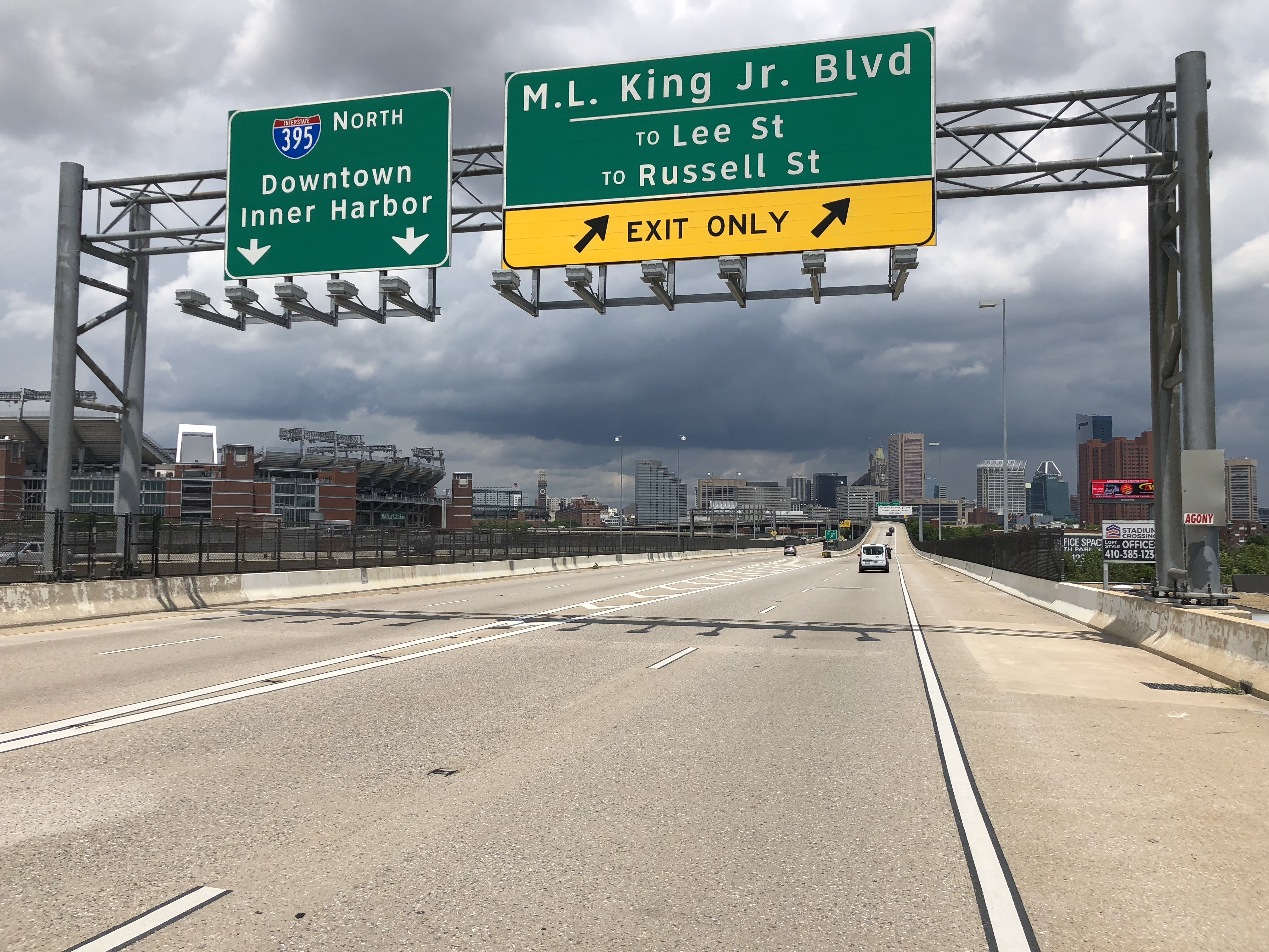 View north along Interstate 395 (Cal Ripken Way) at the exit for Martin Luther King, Junior Boulevard (TO Lee Street, TO Russell Street) in Baltimore City, Maryland